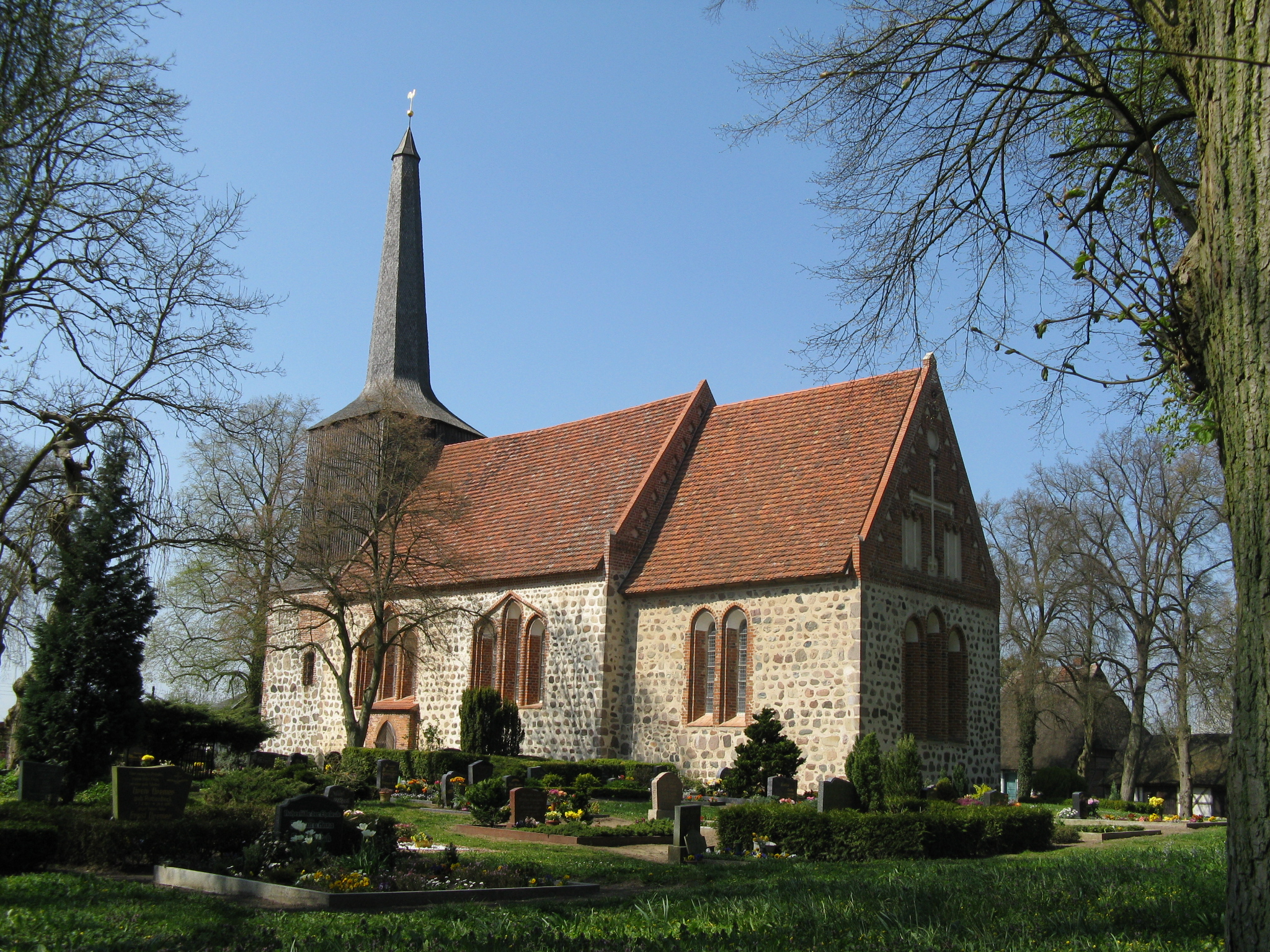 Church in Ruchow, disctrict Parchim, Mecklenburg-Vorpommern, Germany